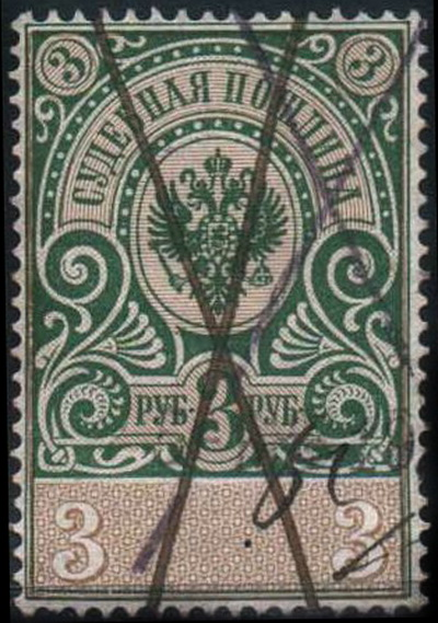 Russia. Stamp of judicial tax